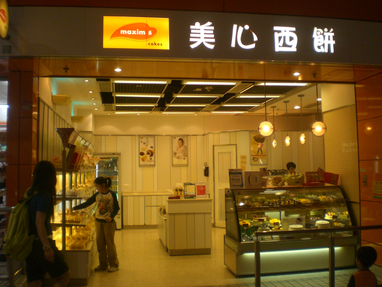 將軍澳 新都城 廣場2期